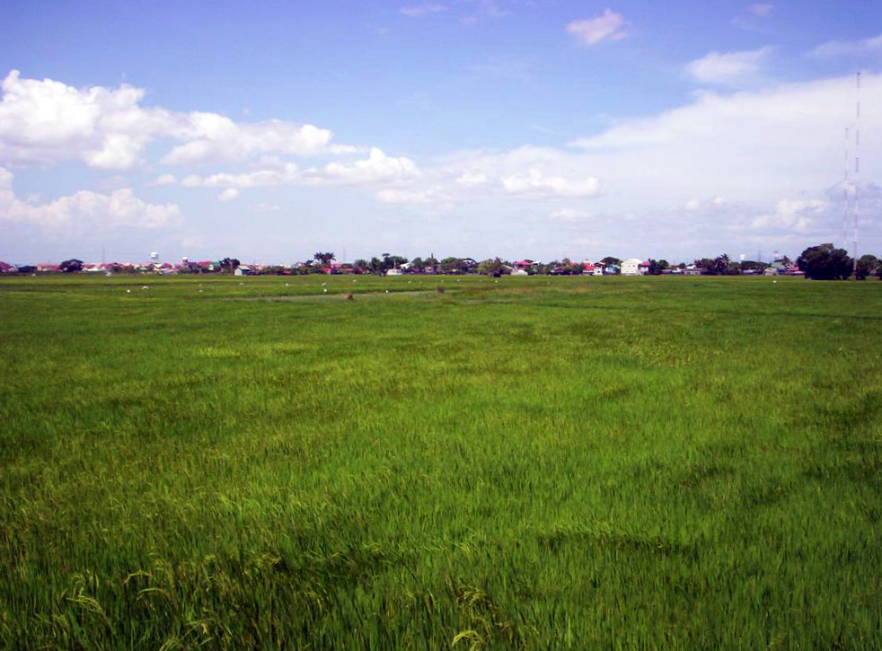 Residential houses of Grand Royale Subdivision forms as a backdrop in a rice field in Barangay Look 1st, Malolos City, Bulacan.